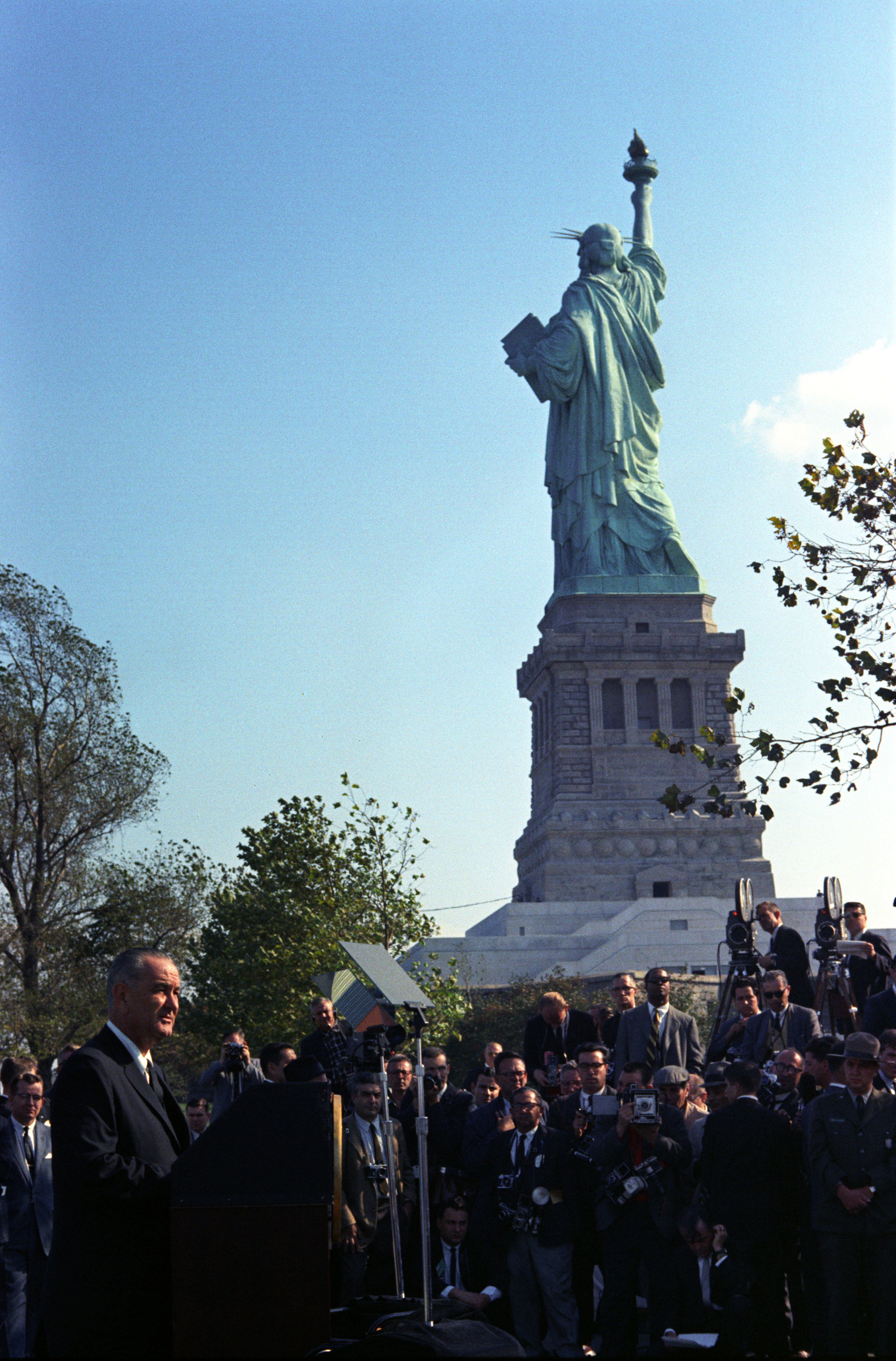 Item number: C666-16A-WH65 President Lyndon Johnson visits Liberty Island to sign the Immigration Act of 1965